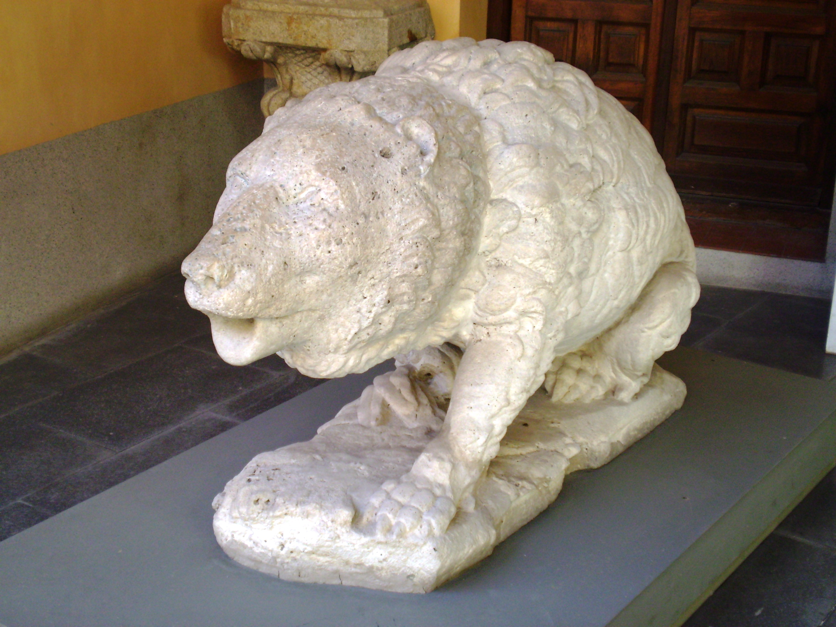 Old statue in the Fountain of Cibeles. Madrid, Spain